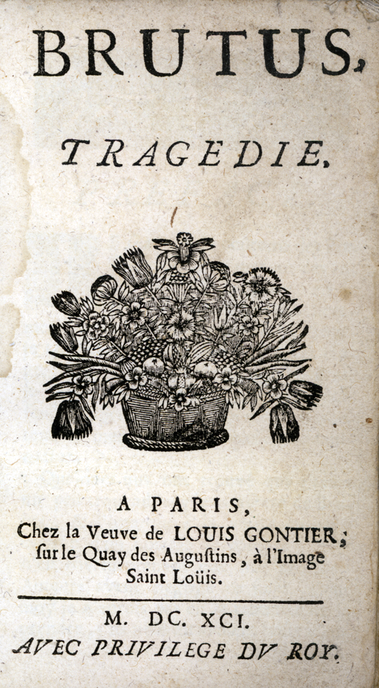 Title page of Brutus, a play by Catherine Bernard, 1691